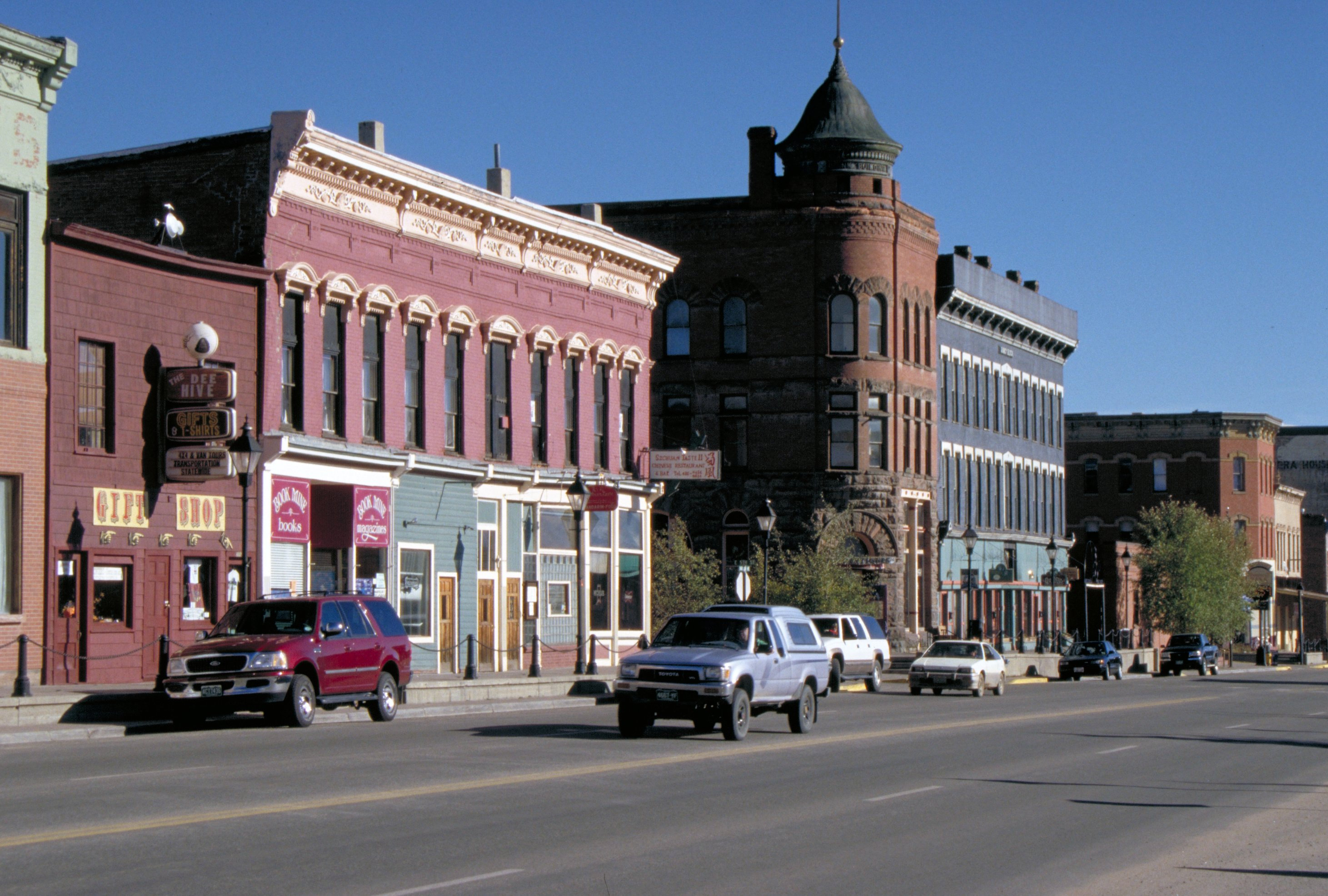 Buildings in downtown Leadville, Colorado, USA